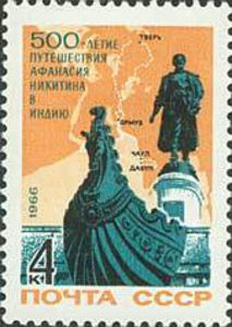 Stamp of USSR: Nikitin Monument in Kalinin, Ship’s Prow and Map. Issue: 500th Anniversary of Afanasy Nikitin's Travel to India